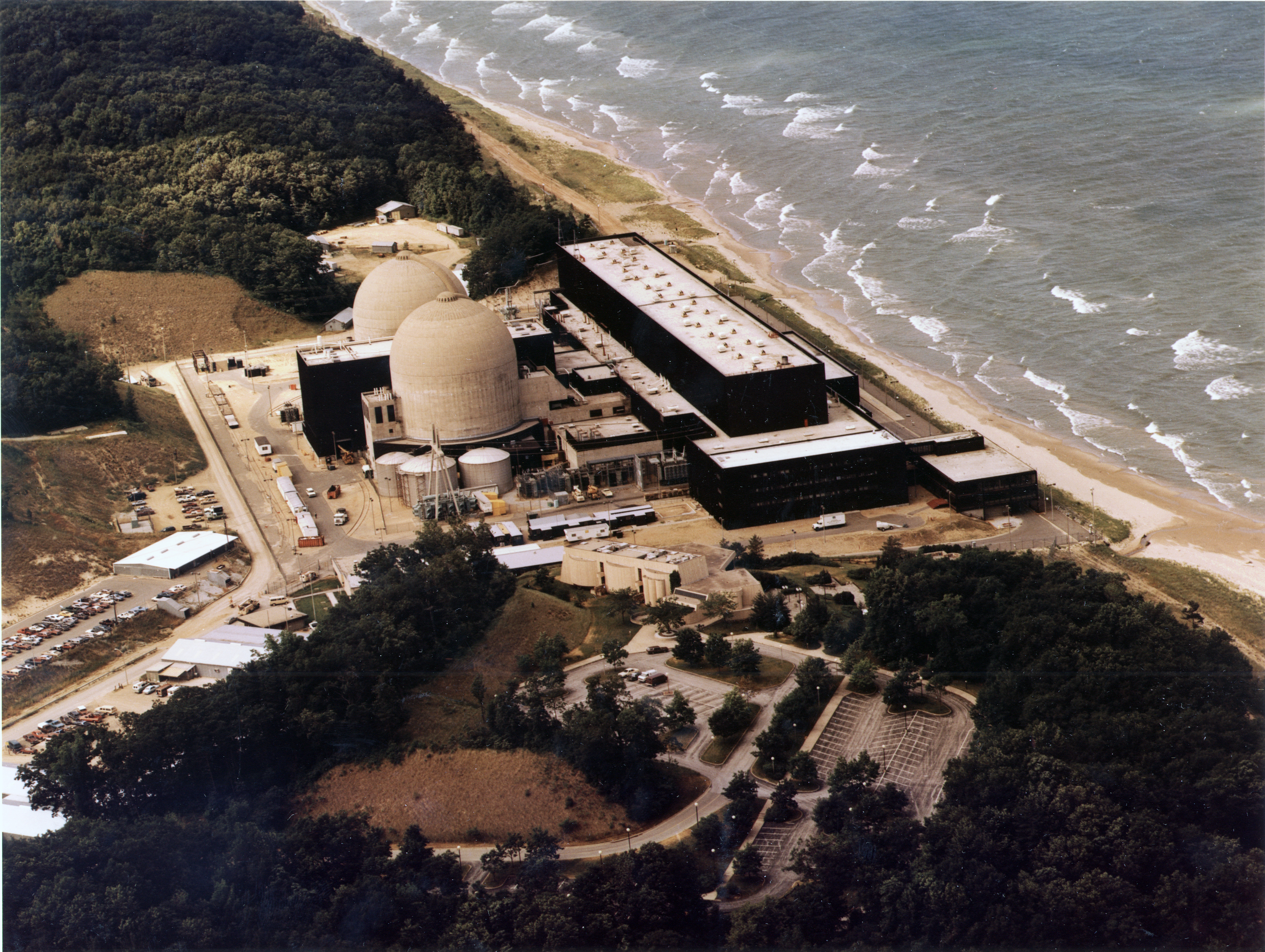 NRC Image of Donald C. Cook Nuclear Plant, Units 1 & 2